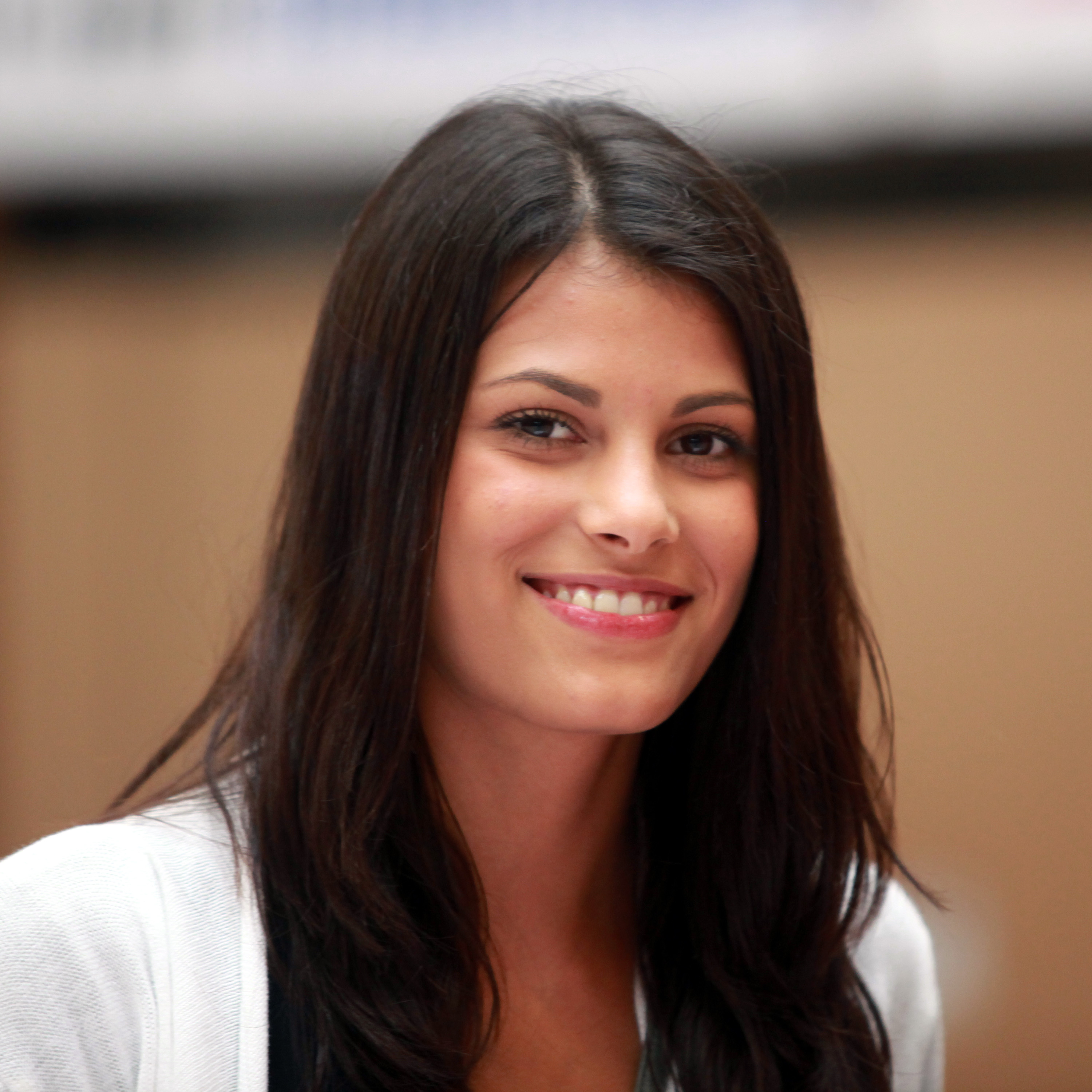 Alisar Ailabouni, "Germany's next Topmodel", on August 14th, 2010 in Ehingen (Germany).